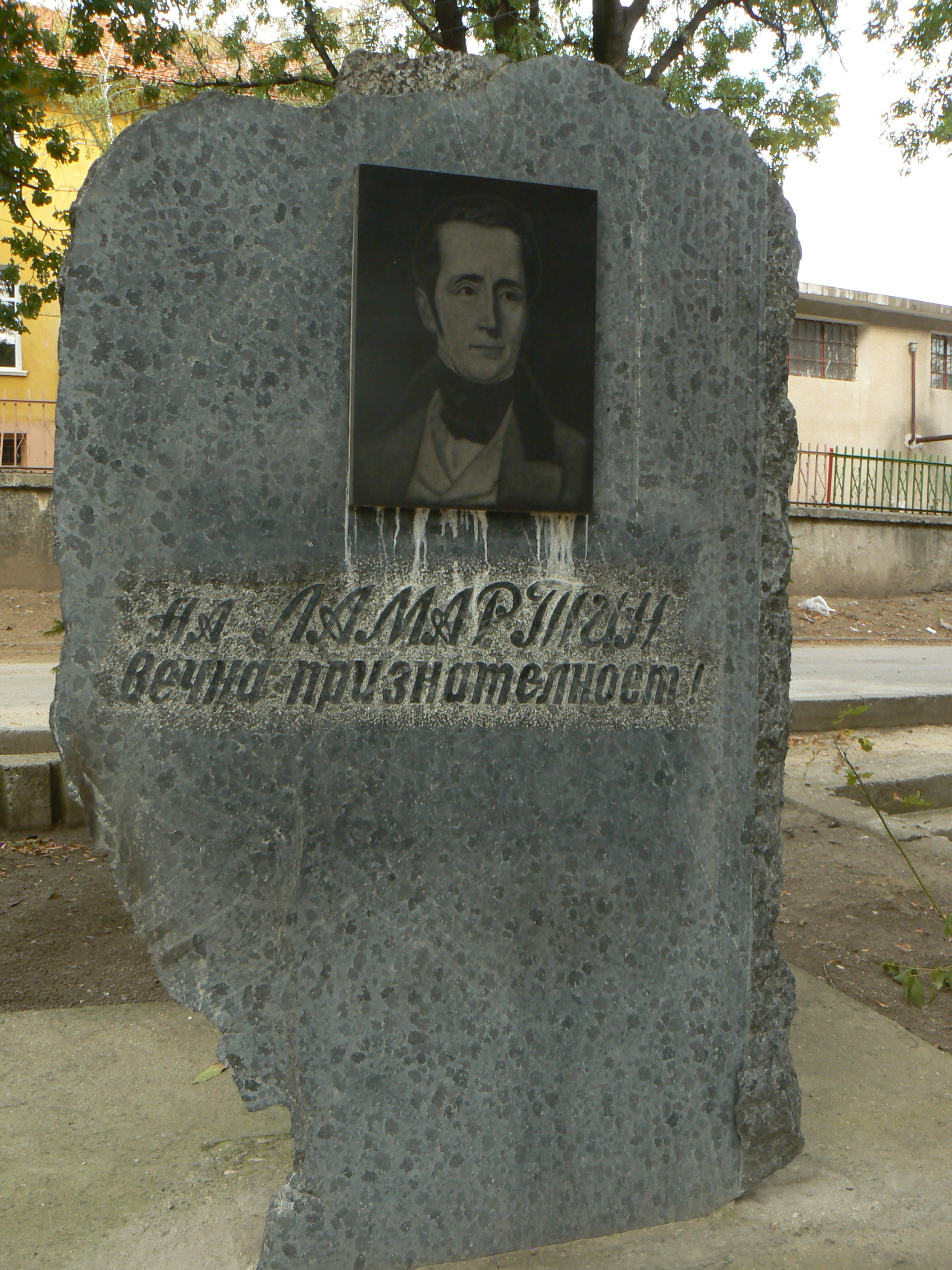 The monument of Alphonse de Lamartine in the town of Vetren, Bulgaria